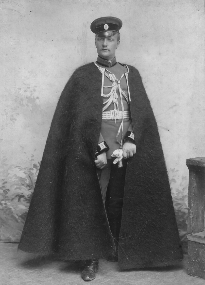 Pribilovich Victor Nikolaevich, photo